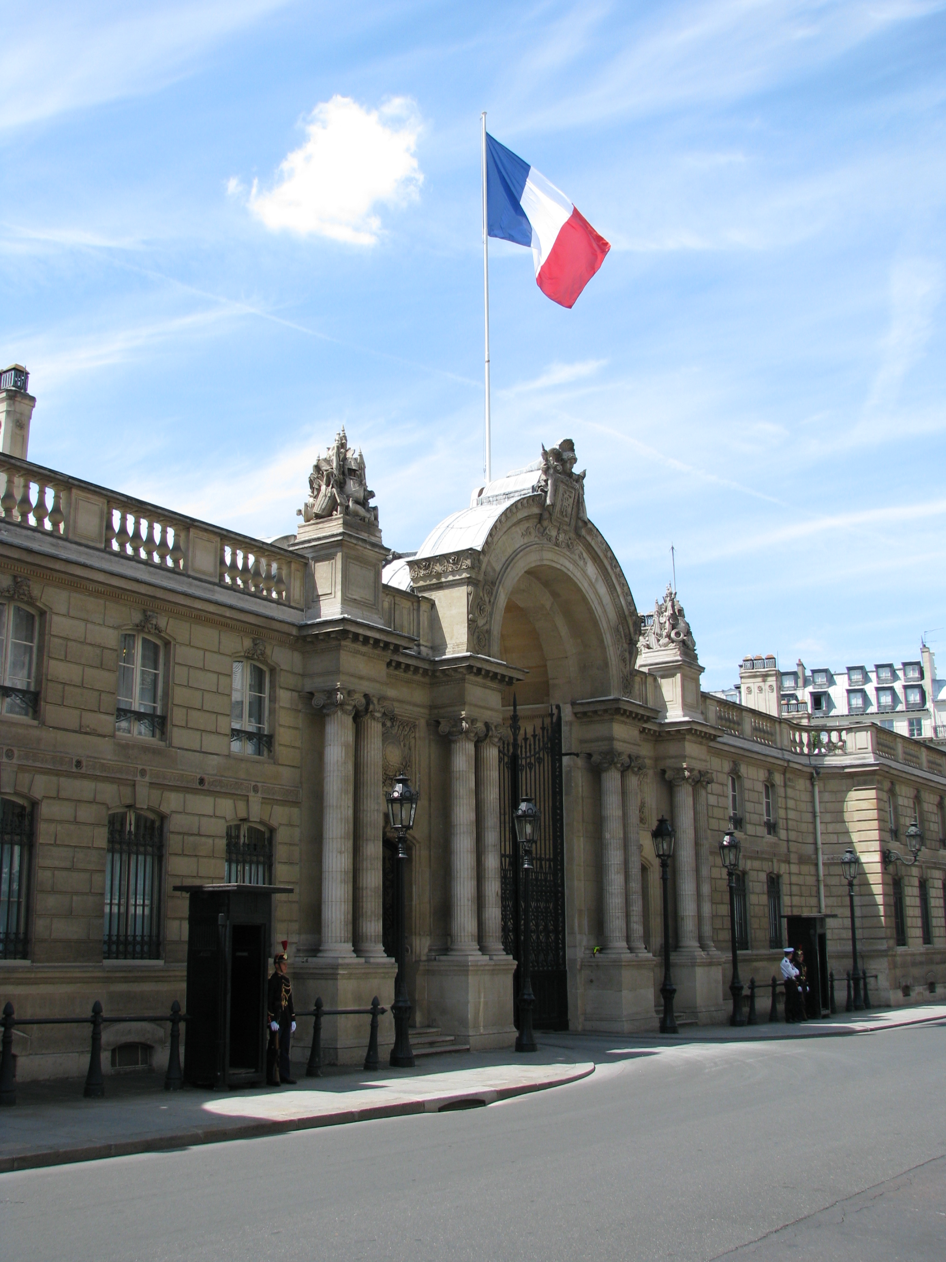 Élysée Palace, Paris, France